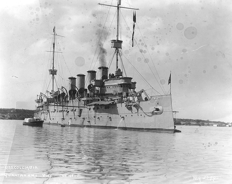 USS Columbia (Cruiser # 12) in Guantanamo Bay, Cuba, January 1920. Original caption: “Photo # NH 55293 USS Columbia in Guantanamo Bay, Cuba, January 1920” — removed caption